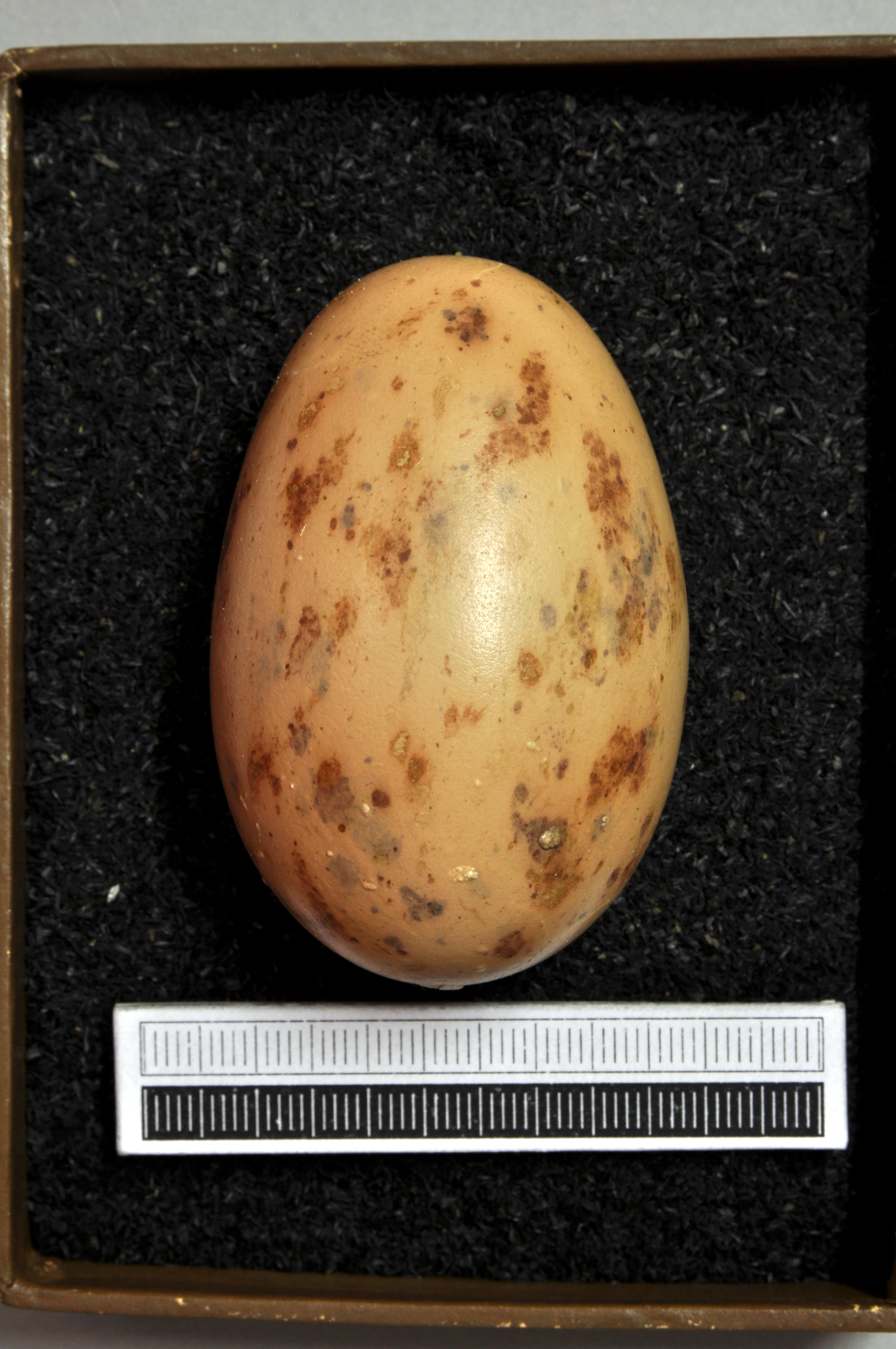 Karoo korhaan Eupodotis vigorsii , egg, Coll. Museum Wiesbaden